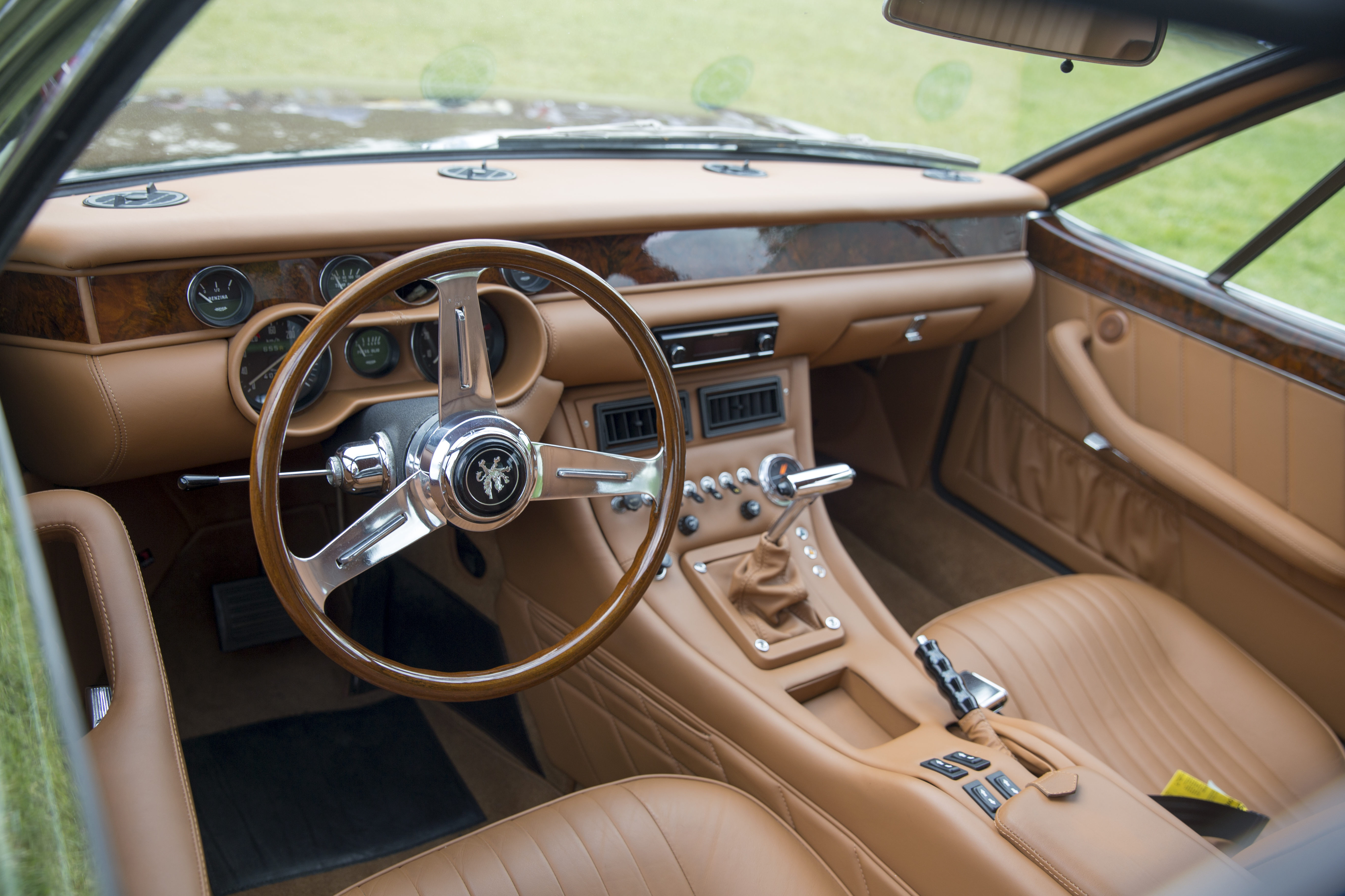 The interior of a 1971 Iso Fidia in Black over Cognac leather at the 2019 Greenwich Concours d'Élegance. One of 15 built in 1971, has received a few intelligent mods such as a hidden modern stereo and an aluminium radiator. This is the updated dashboard which was introduced this year.